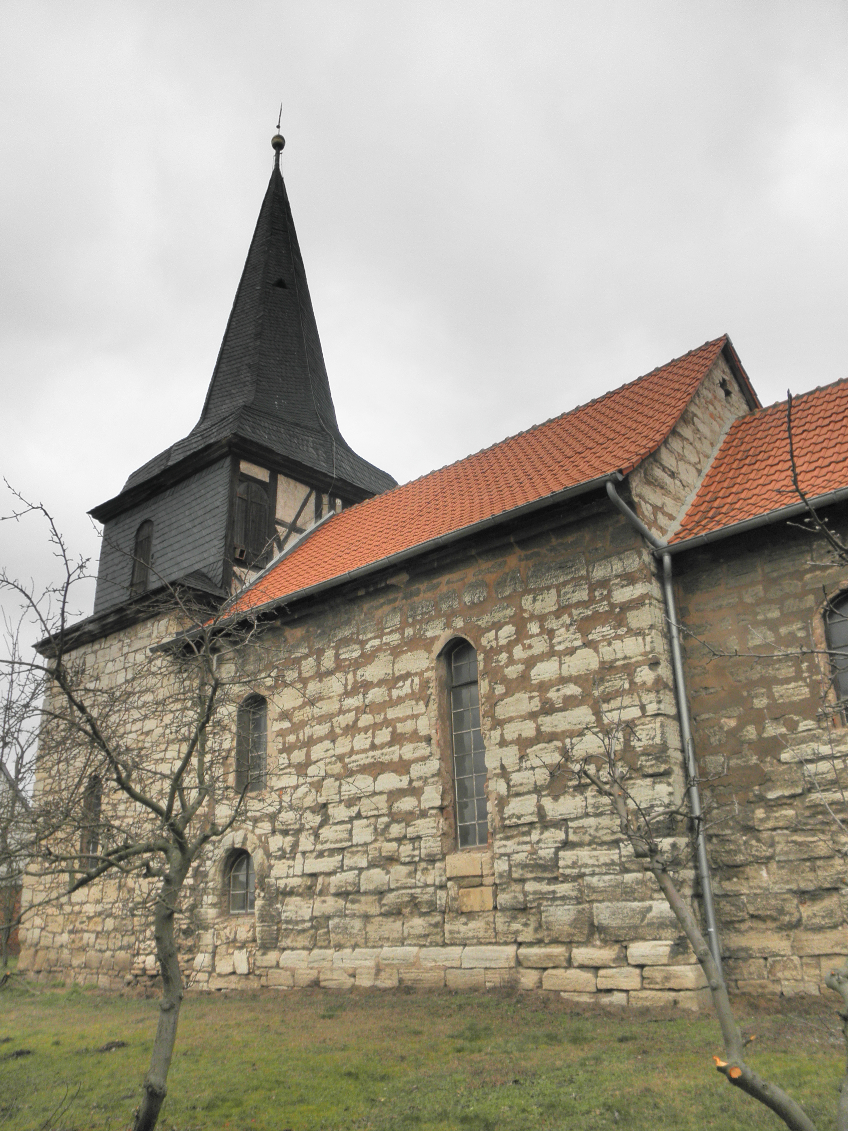 Church in Mitteldorf (Wipperdorf) in Thuringia